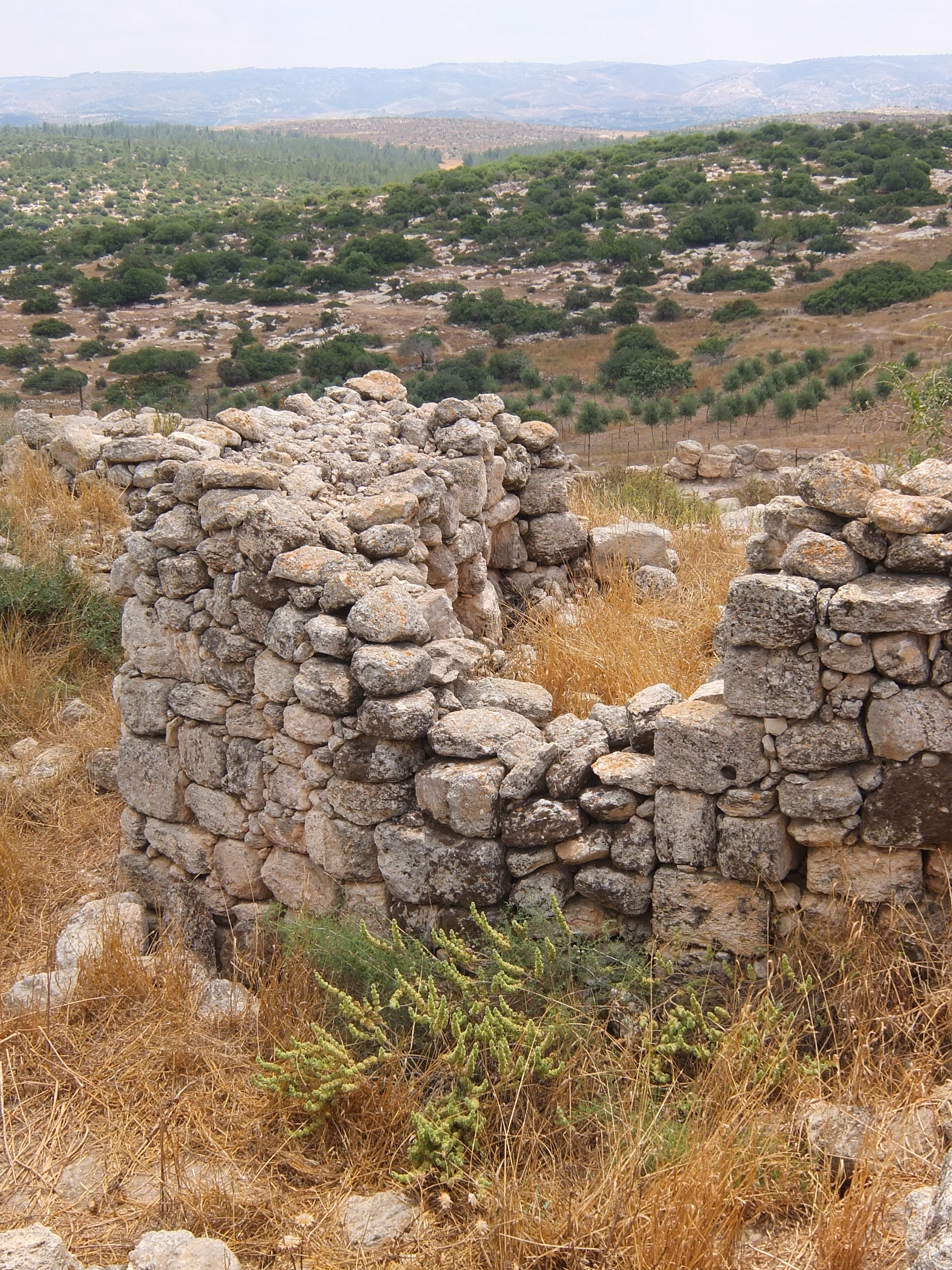 Umm Burj (also known as Hurvat Burgin)